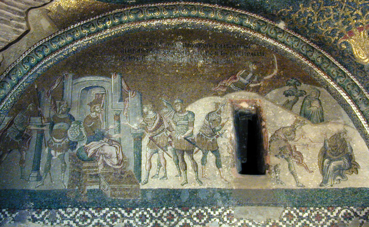 The slaughter of the Innocents. Chora church in Constantinople/Istanbul. Photograph taken by Marsyas 13:18, 19 January 2006 (UTC)